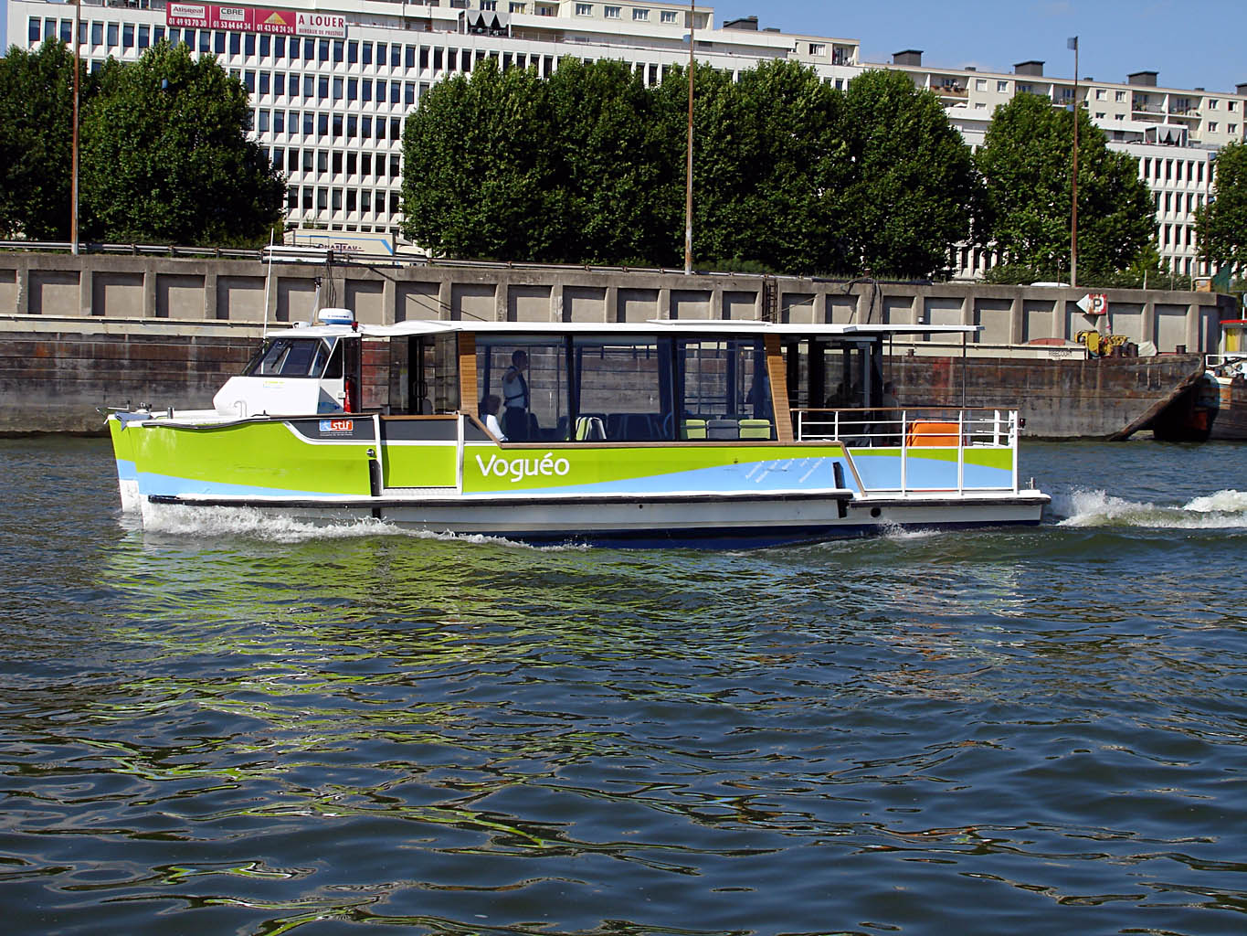 The river shuttle Voguéo, on the river Seine in Paris, France